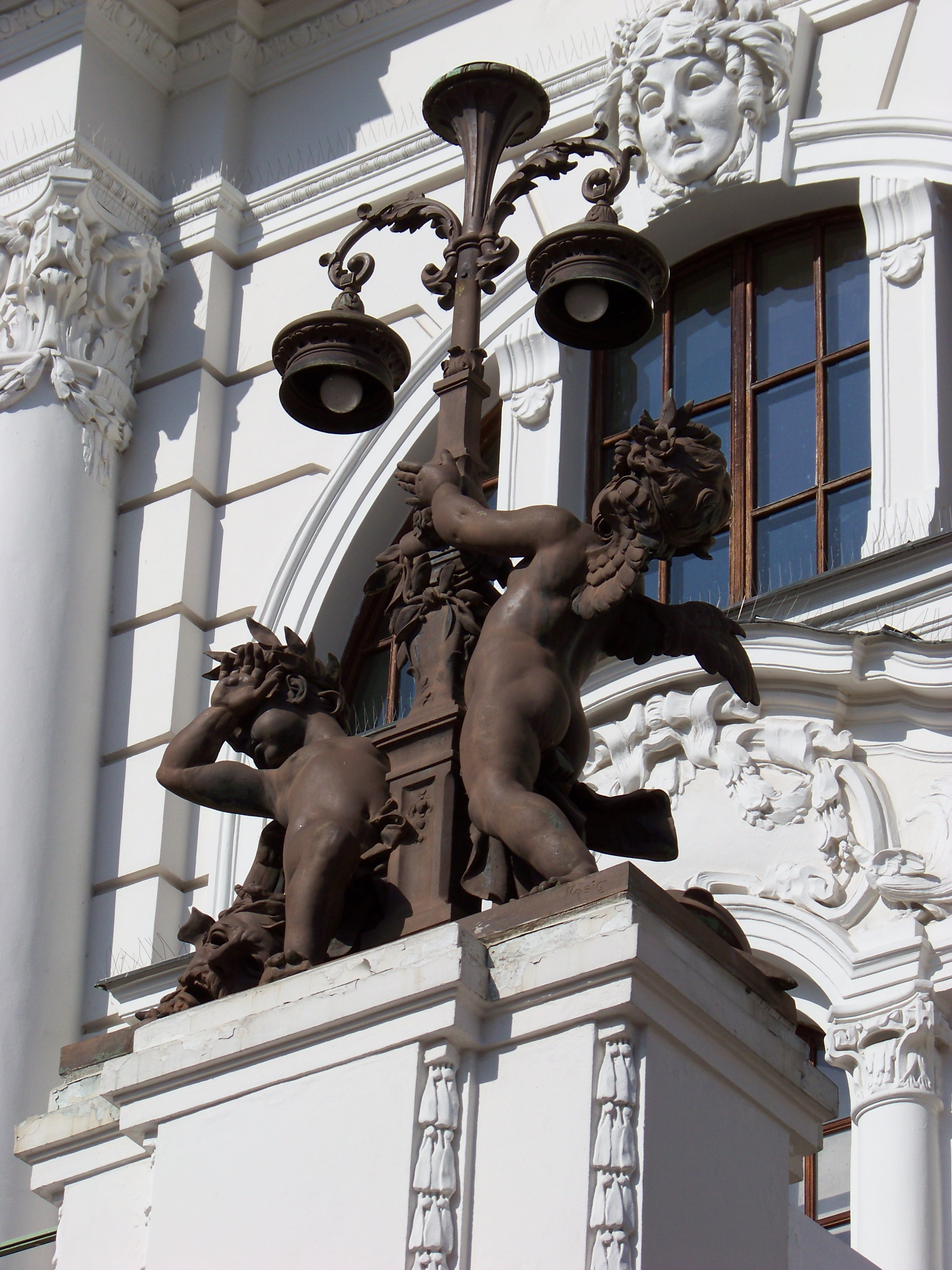 Ústí nad Labem-centrum, Ústí nad Labem District, Ústí nad Labem Region, the Czech Republic. Masarykova, a theatre. A scupture with a lamp. - Google Maps - Google Earth